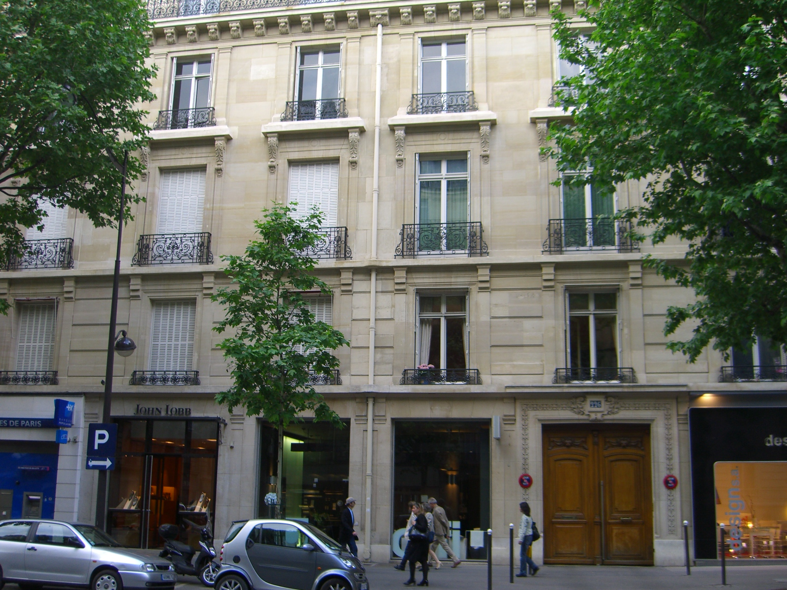 The photo of the Paris building – siege of the Association of Alumni of the National school administration (ENA) with the Prime minister of France, at n°226 boulevard de Saint-Germain, made by Sergey Zhirnoff, a former soviet spy